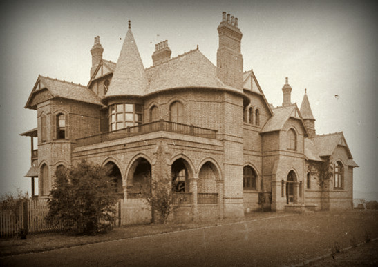 Camelot, Kirkham Lane, Kirkham, Sydney